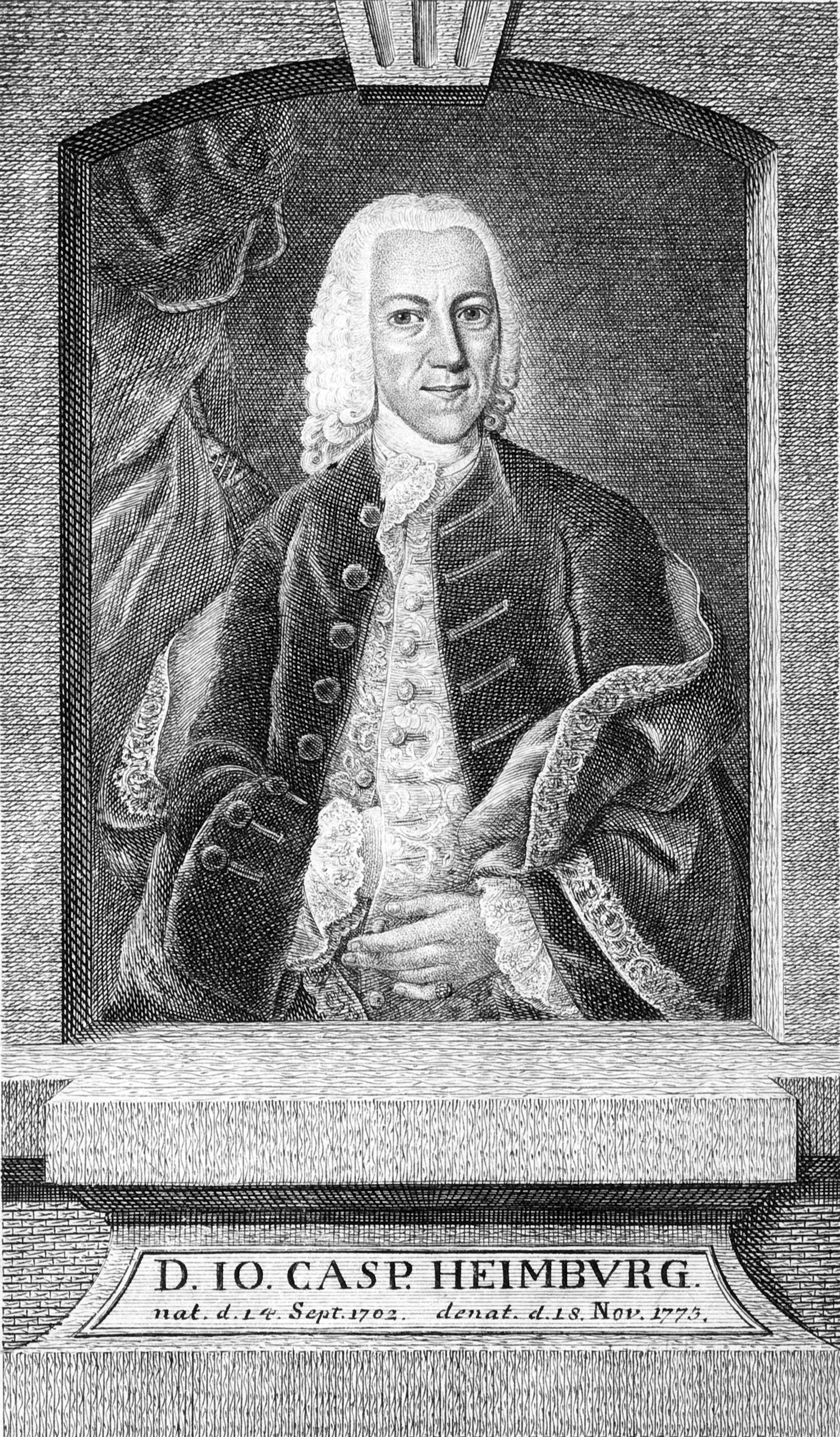 Johann Caspar Heimburg (1702-1773) german legal scholar